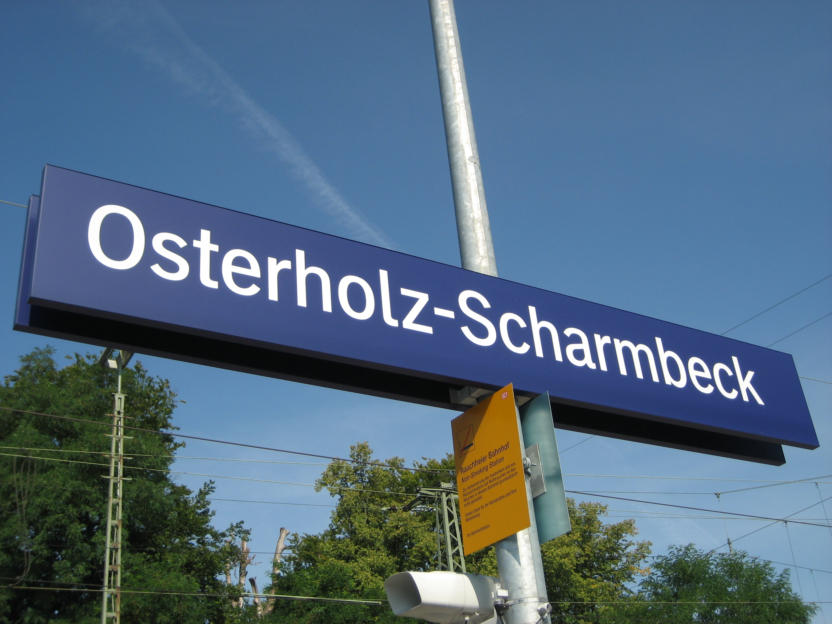 train station sign in Osterholz-Scharmbeck, near Bremen, Germany